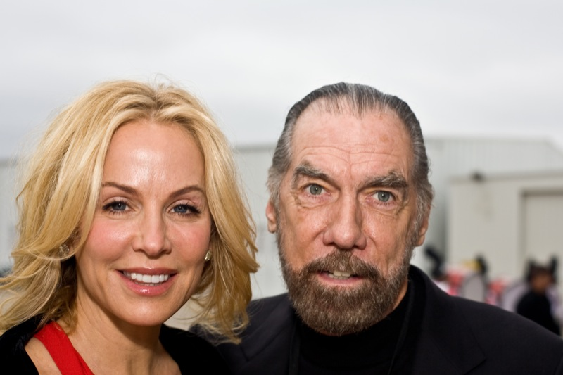 Texas Film Hall of Fame Awards 2009